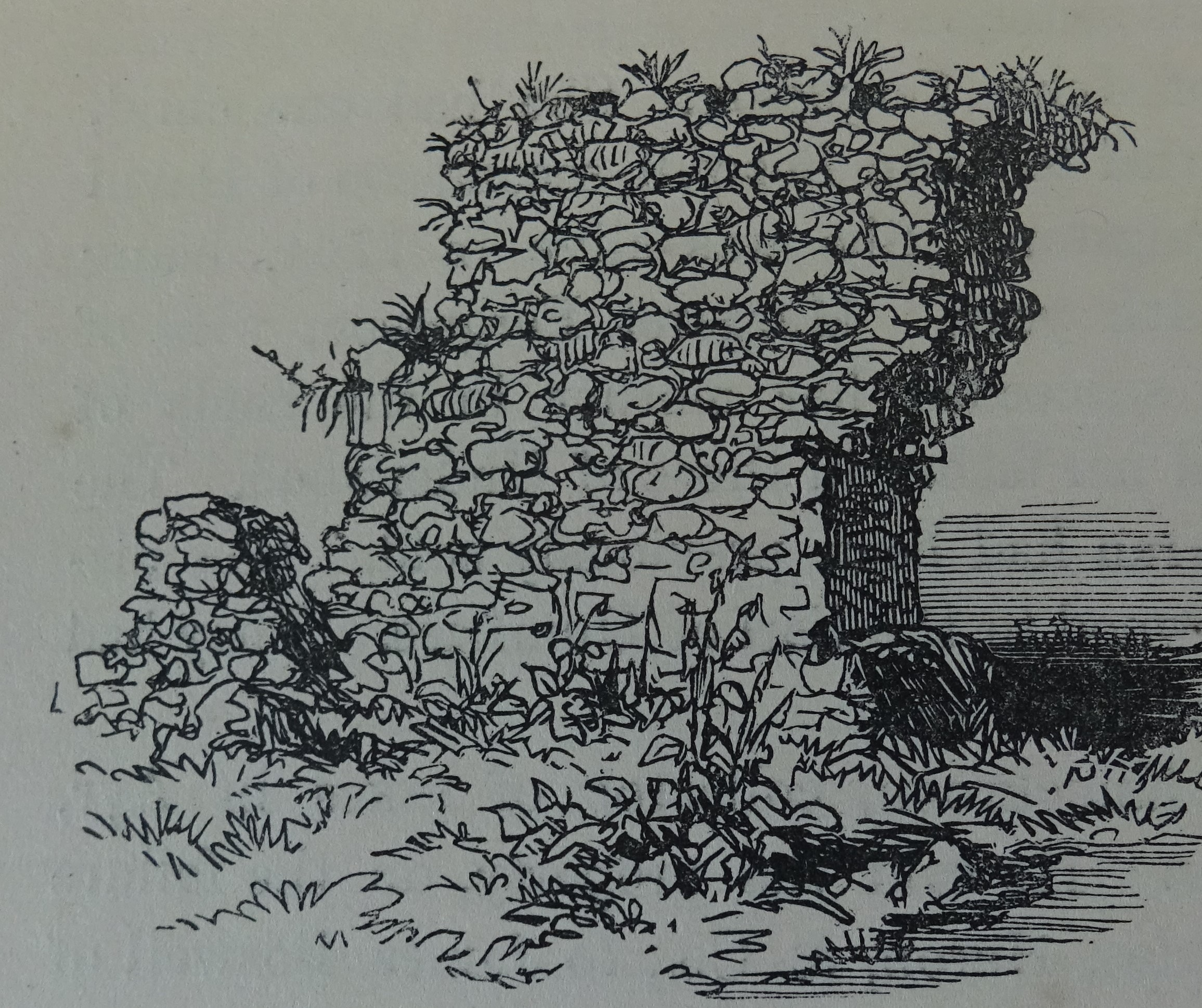 Kyle Castle, Dalblair. The ruins in 1863 as illustrated in James Paterson's History of Ayr and Wigton.